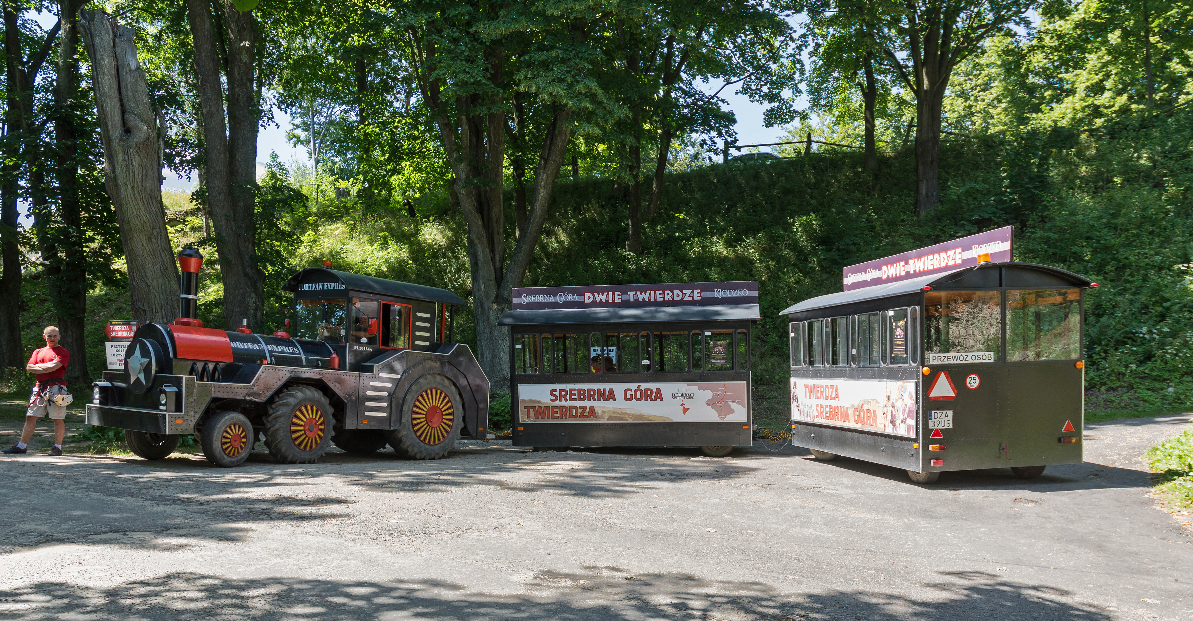 Trackless trains in Srebrna Góra